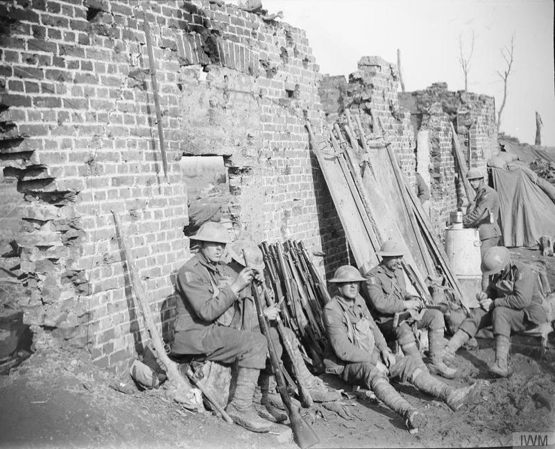 The British Army on the Western Front, 1914-1918 Troops of the Dorsetshire Regiment resting and cleaning rifles in the ruins of a farm near Langemarcke, 17 October 1917.